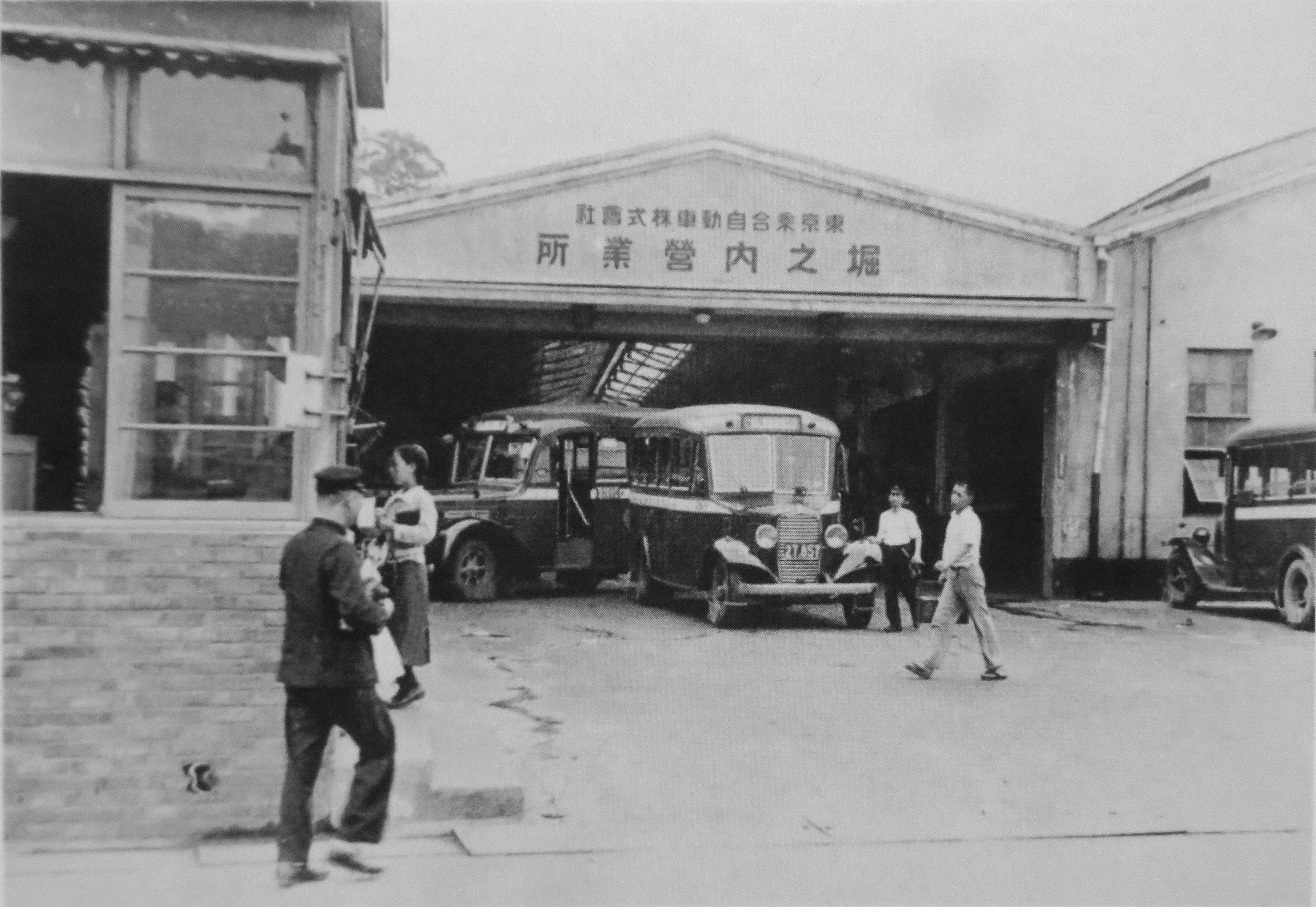 TokyoNoriaiJidoushaBus in Horinouch Station, 1936